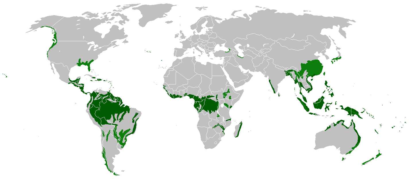 Location of tropical (dark green) and temperate/subtropical (light green) rainforests in the world.